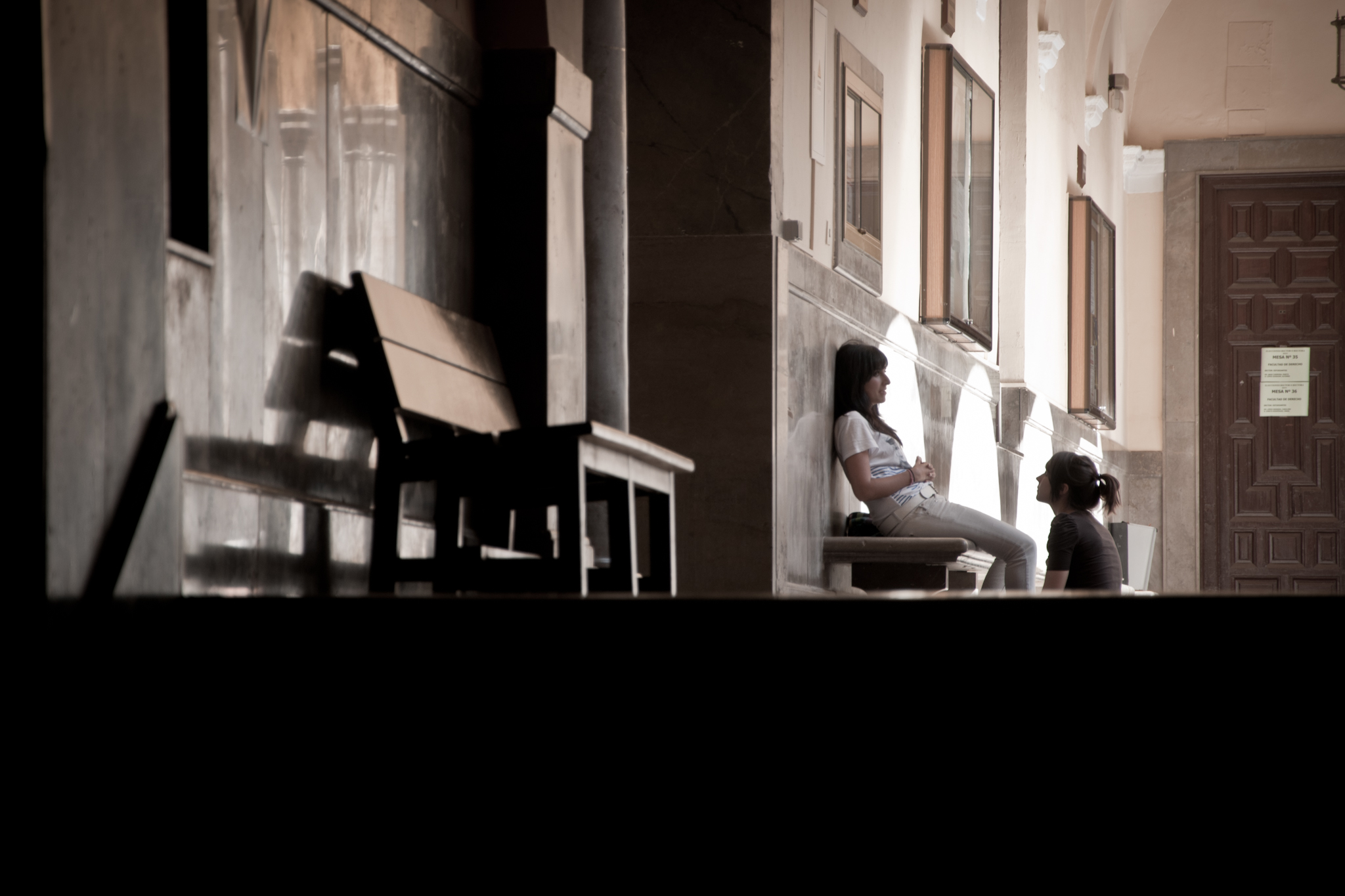 Inside view of the Faculty of Law at University of Granada, Spain.